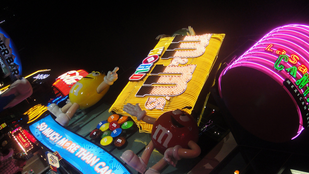 Description: View of the Las Vegas Strip from the New York New York-MGM Grand over street, bridge crossing. Author: Josh Truelson [cooljuno411] Date Created: Tuesday, August 16, 2009 [2009-08-16] Location: The Strip, Las Vegas, Nevada Event: Vacation to Las Vegas.